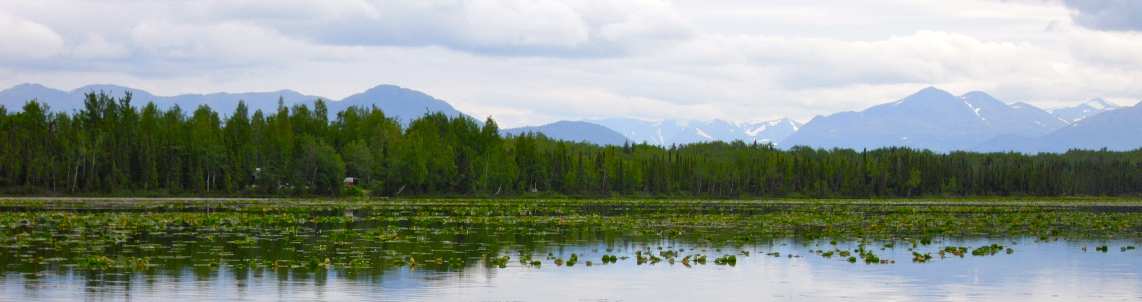 Water lily (Nuphar) "field" on a calm lake, Kenai National Wildlife Refuge, Alaska